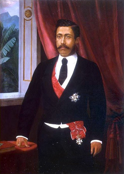 Painting of King Lunalilo of Hawaii by Danish painter Eiler Jurgensen, which currently hangs at Iolani Palace. Purchased by the Kingdom of Hawaii government in 1882 from the estate of Charles Kanaina.